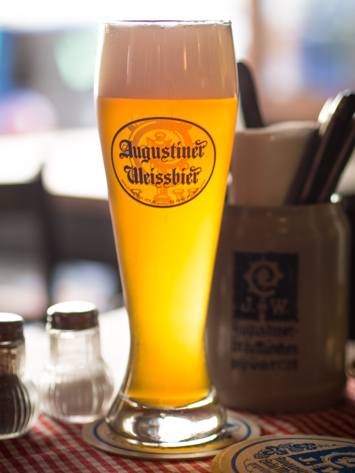 A glass of "Augustiner" wheat beer in a pub in Munich.